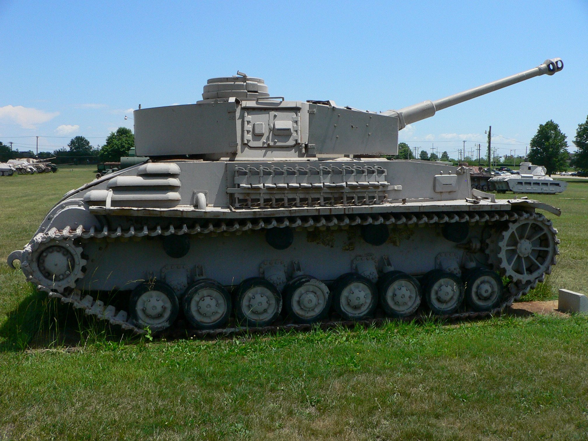 Picture taken by myself, Mark Pellegrini, at the United States Army Ordnance Museum (Aberdeen Proving Ground, MD) on June 12, 2007.